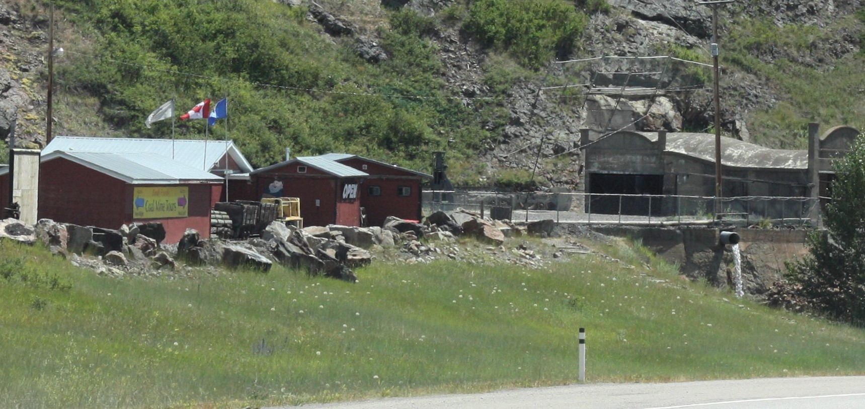 Bellevue Underground Mine museum as seen from Highway 3.